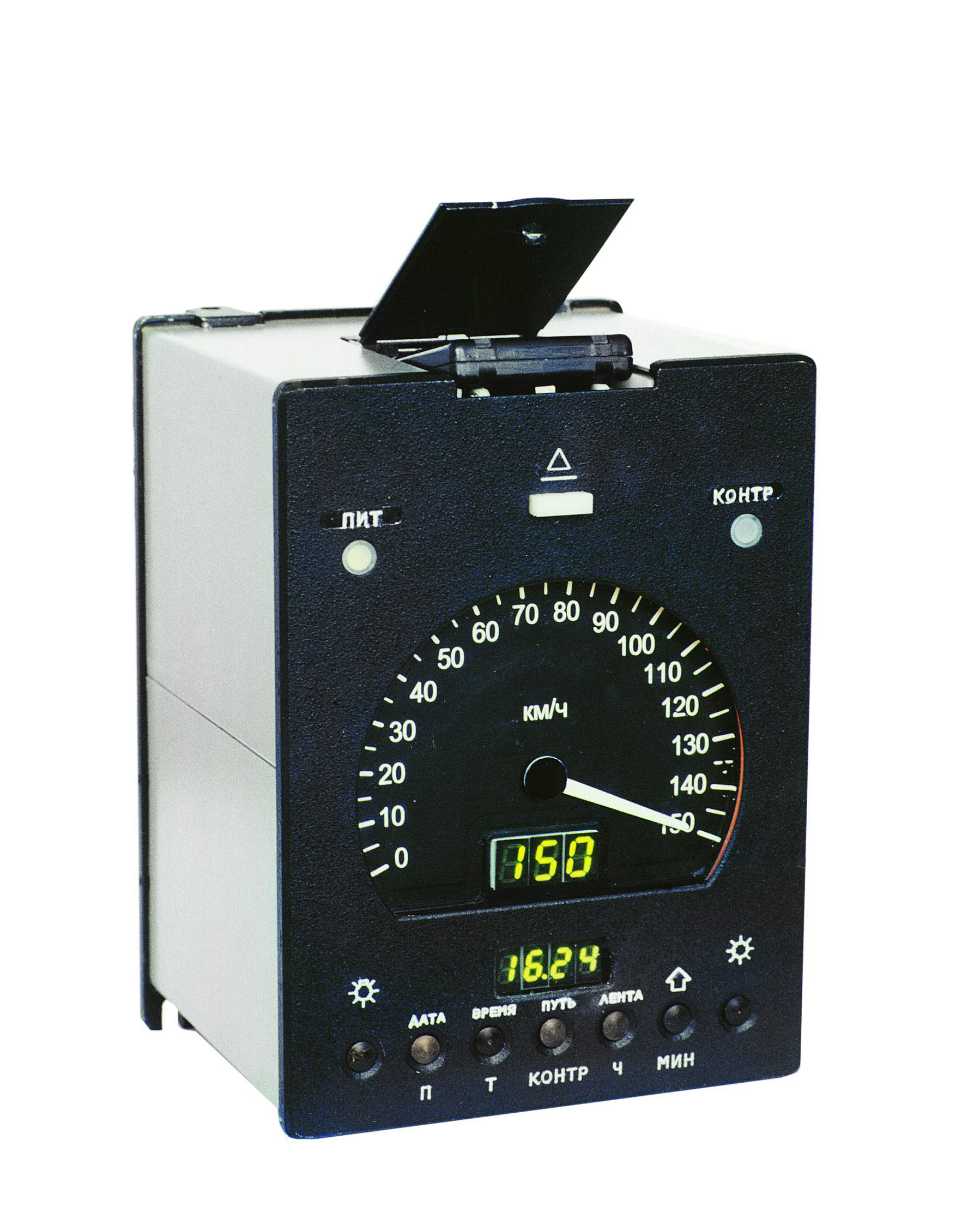 Control unit locomotive speedometer KPD-3P